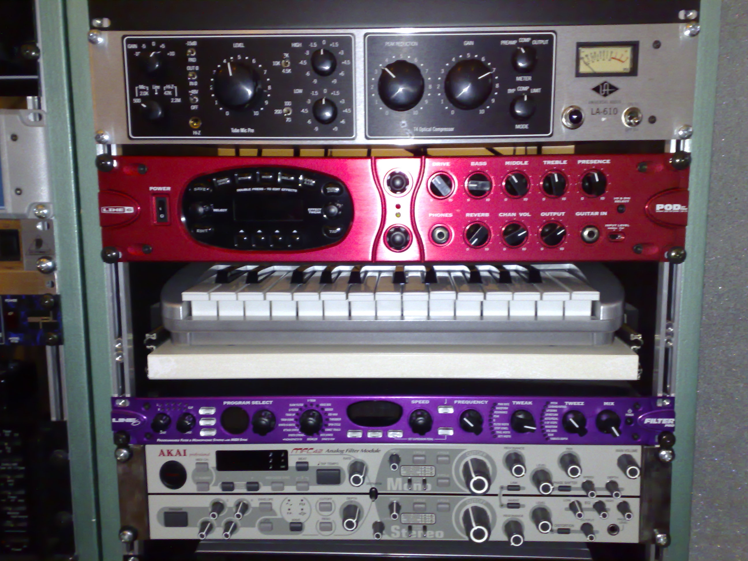 Audio Studio Rack Universal Audio LA-610 Line 6 POD M-AUDIO Oxygen (MIDI Keyboard) Line 6 FILTER PRO AKAI MFC42 Analog Filter Module